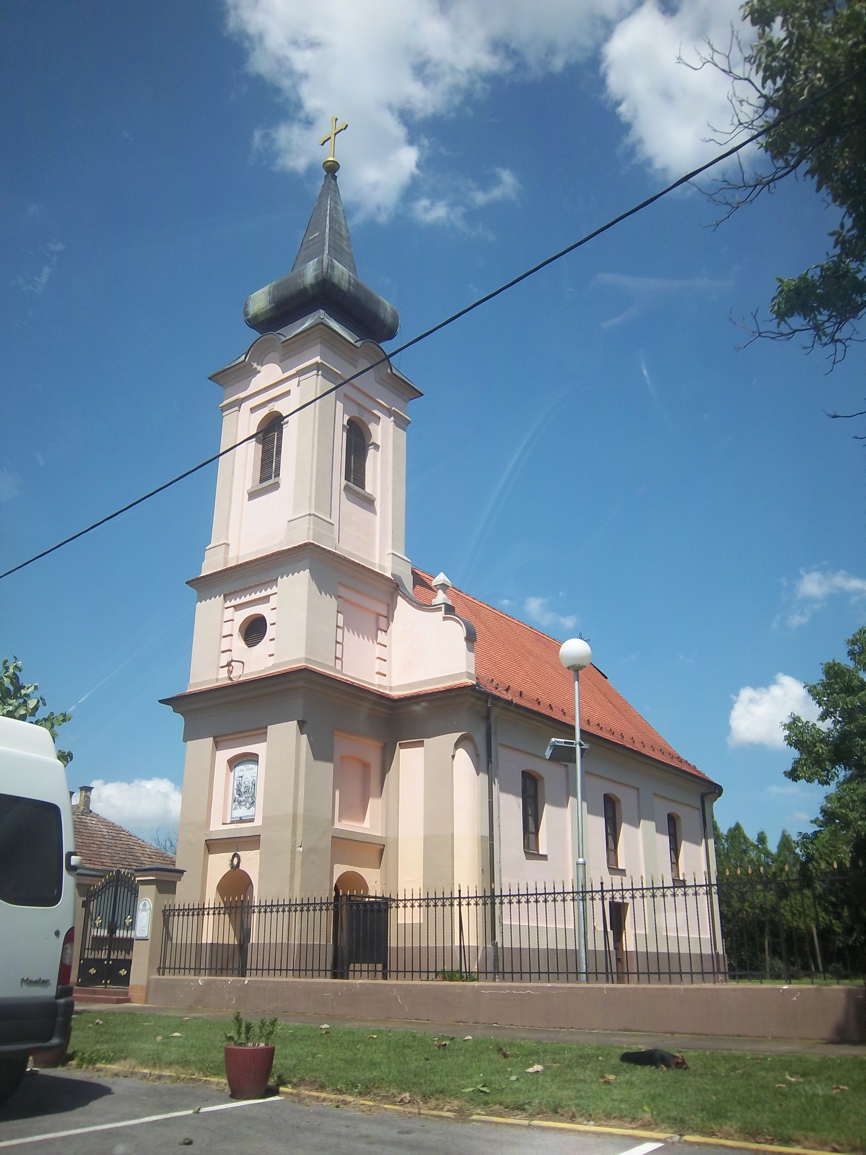 Ostrovo, Markušica, Croatia